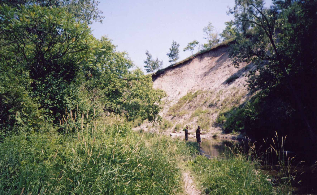 The following is the author's description of the photograph quoted directly from the photograph's Flickr page. "The Rouge river just south of Twin Rivers Drive in Toronto. "